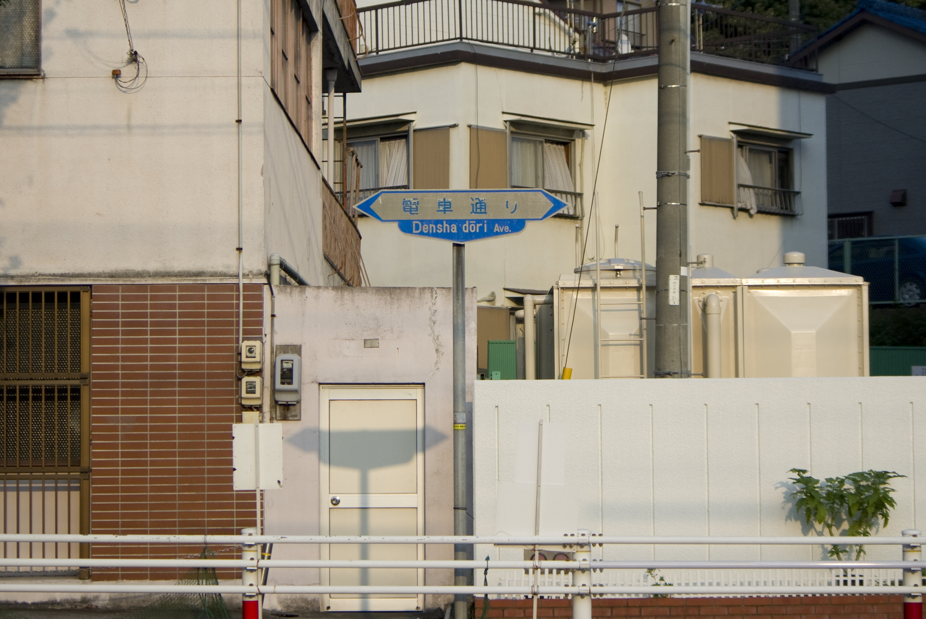 Sign for the Densha-dori ("Tram avenue") in Okazaki City, Aichi Prefecture, Japan